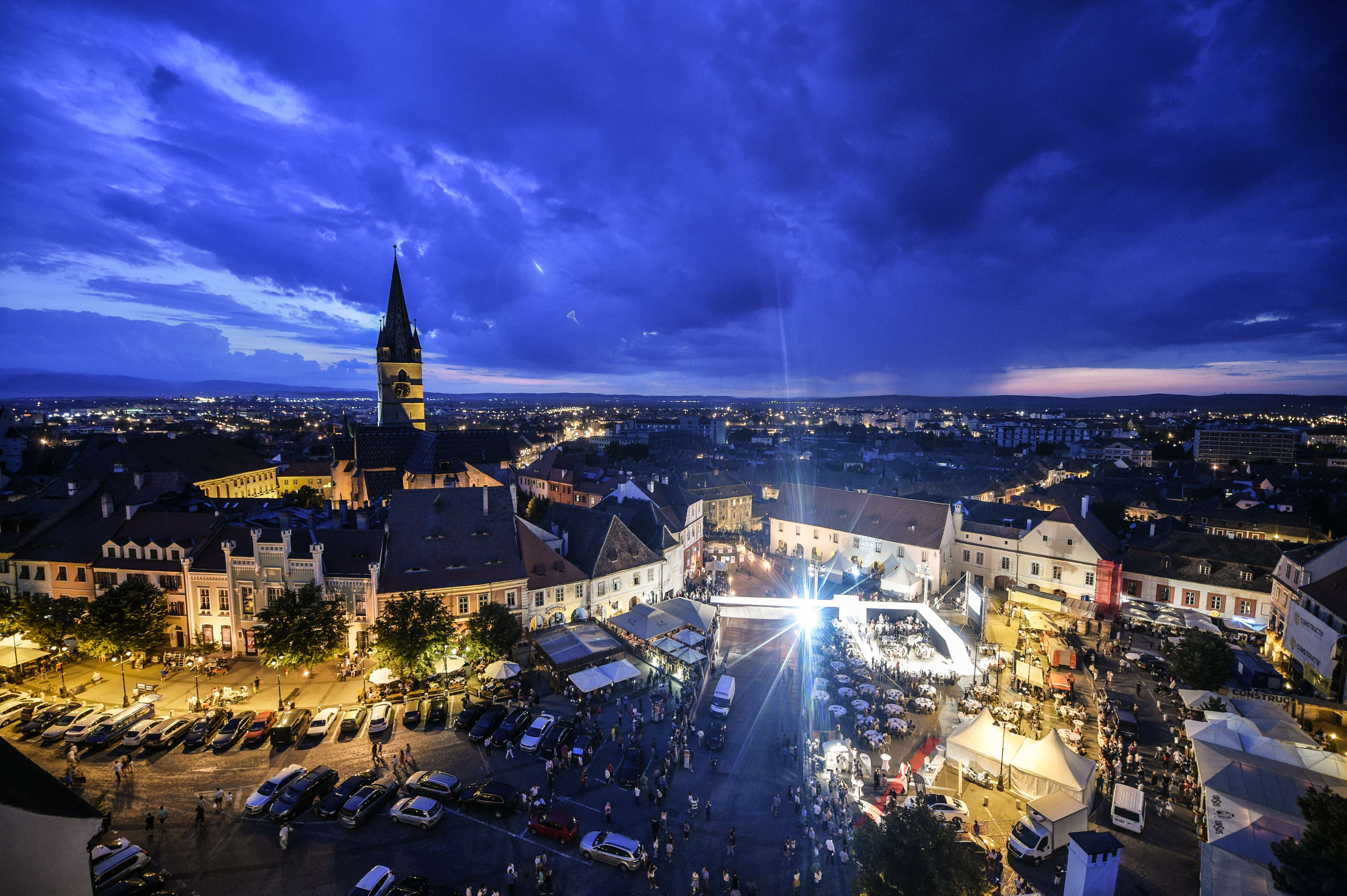 This photo was shot by Sebastian Marcovici from The Council Tower